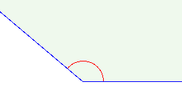 Graphic of an obtuse angle, by Toobaz (